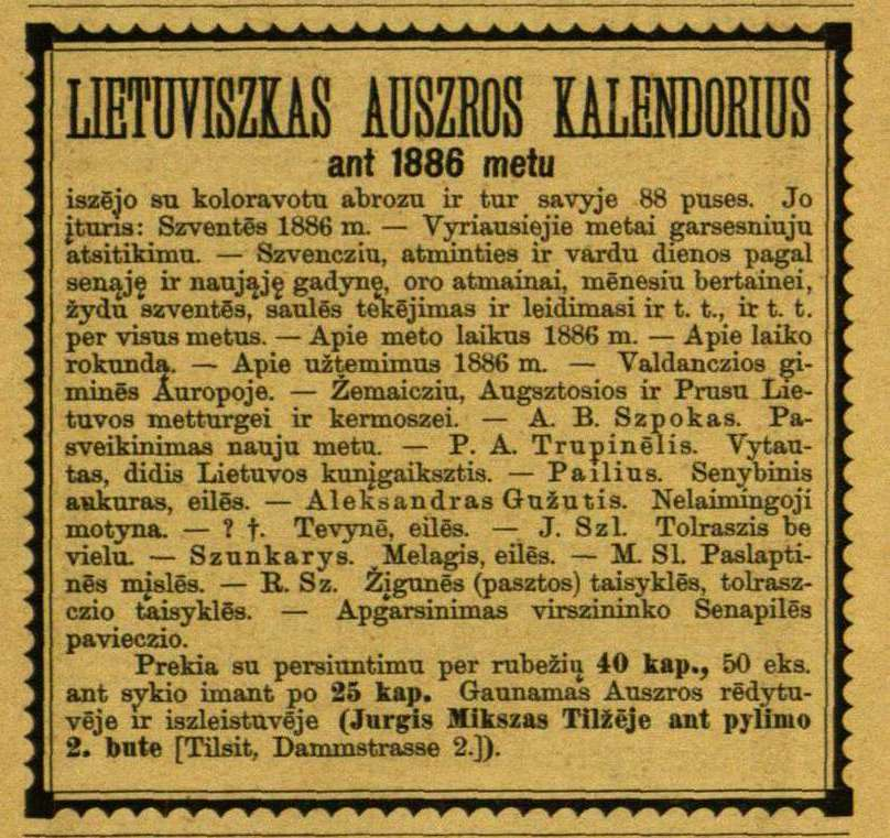 The Auszra's 1886 year caledar advertising